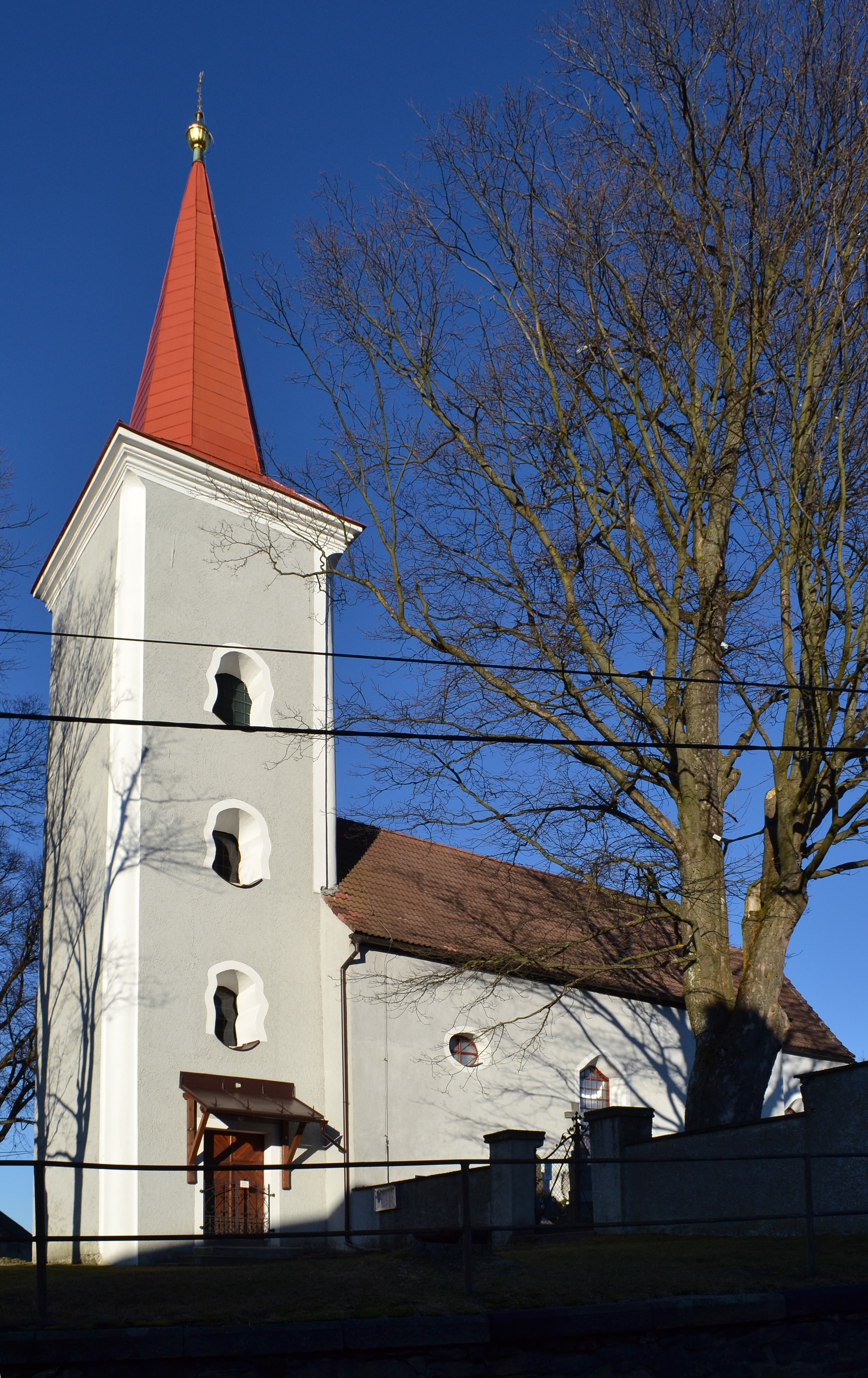 Church od Saint Wenceslaus in Čachrov, Klatovy district, Czech Republic.